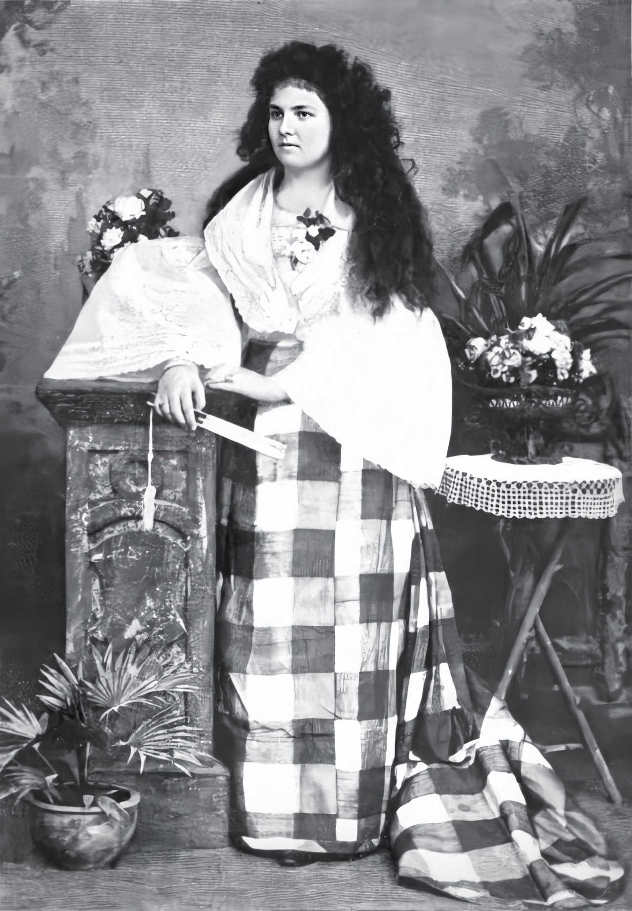 Josephine Bracken, wife of Dr. Jose Rizal, national hero of the Philippines, wearing traditional Filipino dress.